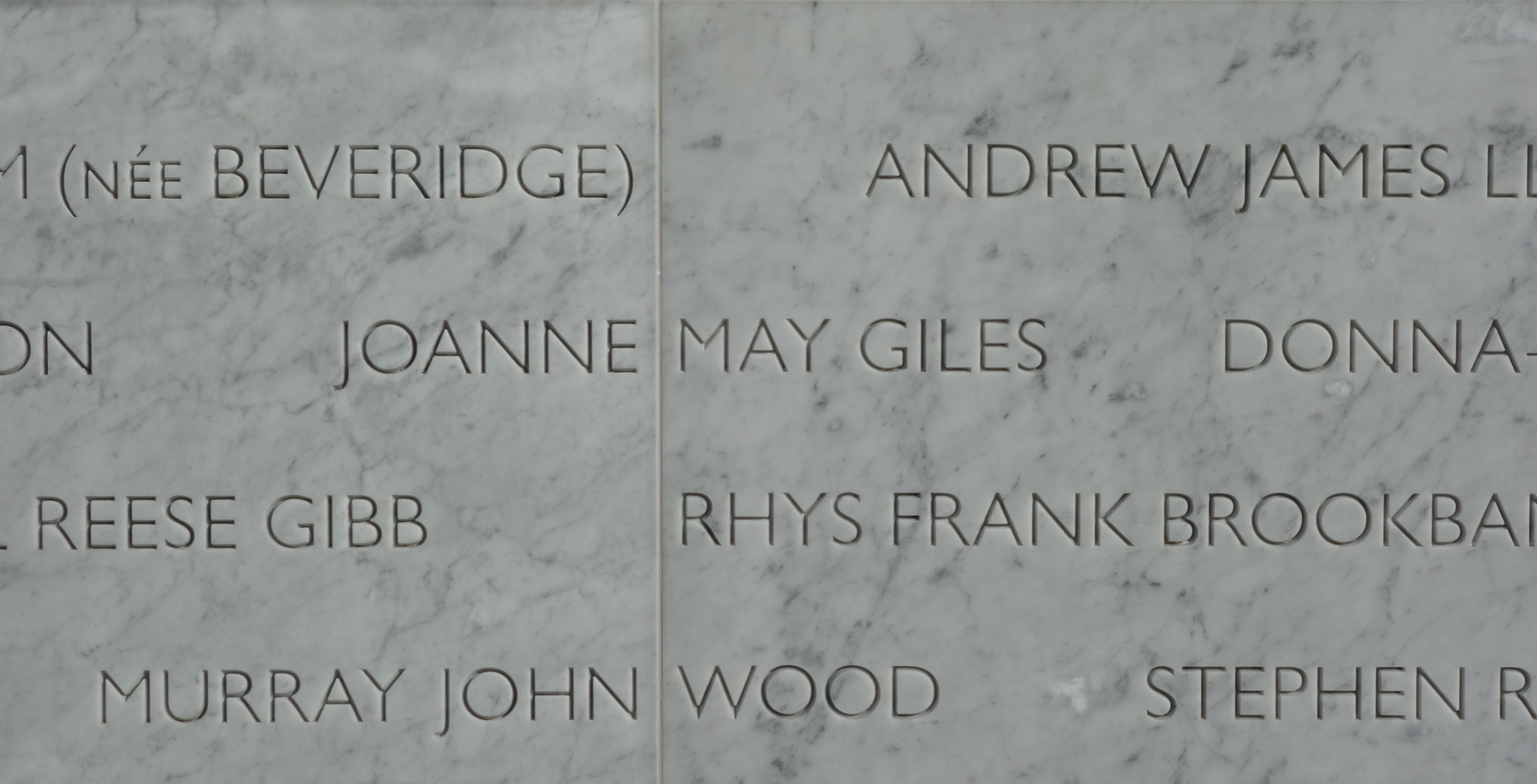 Canterbury Earthquake National Memorial – dedication service